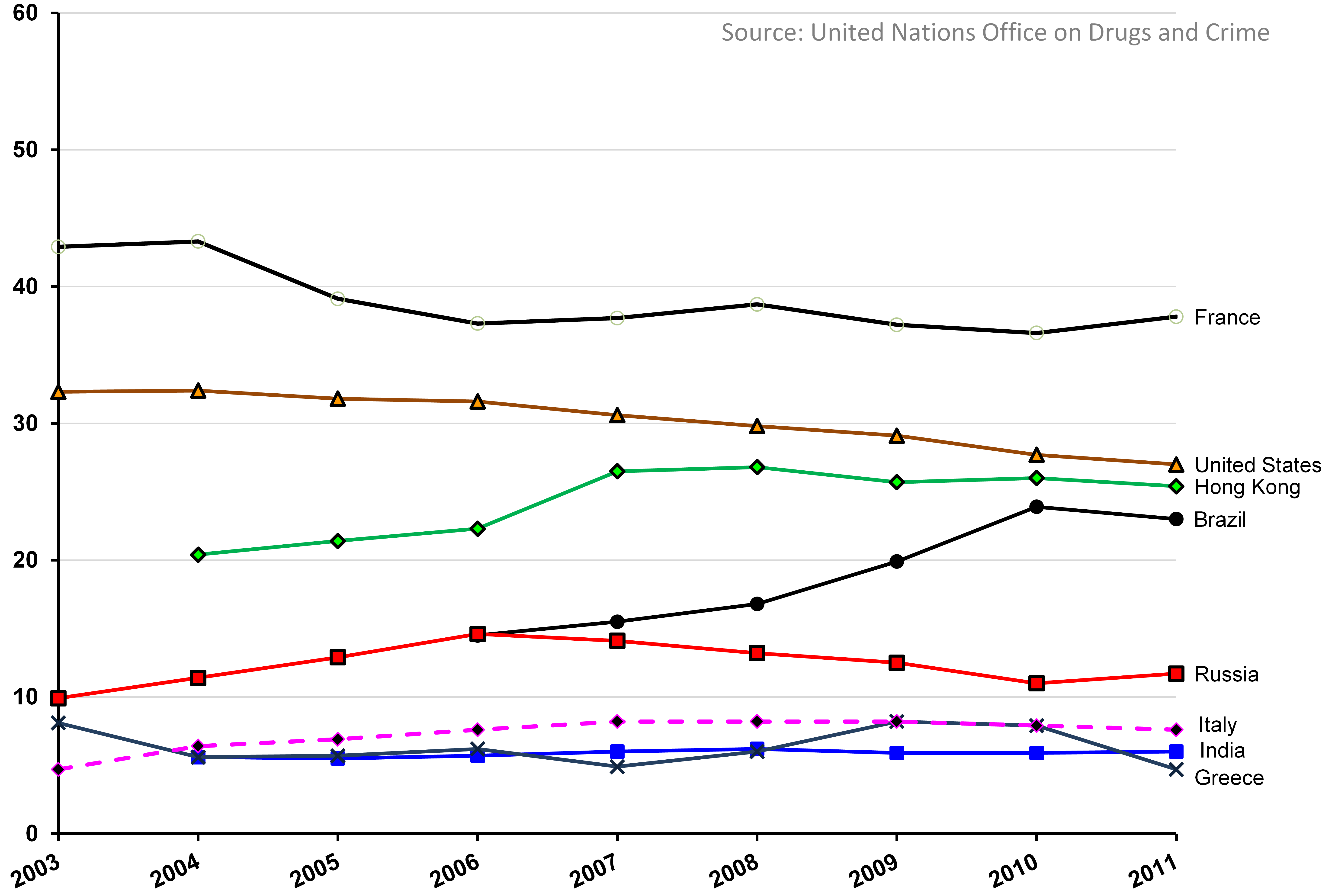 Rape and sexual assault rate trends among select countries - Brazil, Russia, Hong Kong (China), India, United States, France, Greece, Italy Rate is per 100,000 people over 2003 to 2011 The trend chart includes rape, attempted rape and sexual assault on women and children for all countries except the United States. For the US, the data does not include sexual crimes against minors. The data for United States is from FBI, US Department of Justice Crime in the United States 1993-2012 Federal Bureau of Investigation, United States Data source: UNODC, Crime against women, Sexual Violence Tables as of July 2013, Crime and criminal justice statistics, United Nations Office on Drugs and Crime (2013)